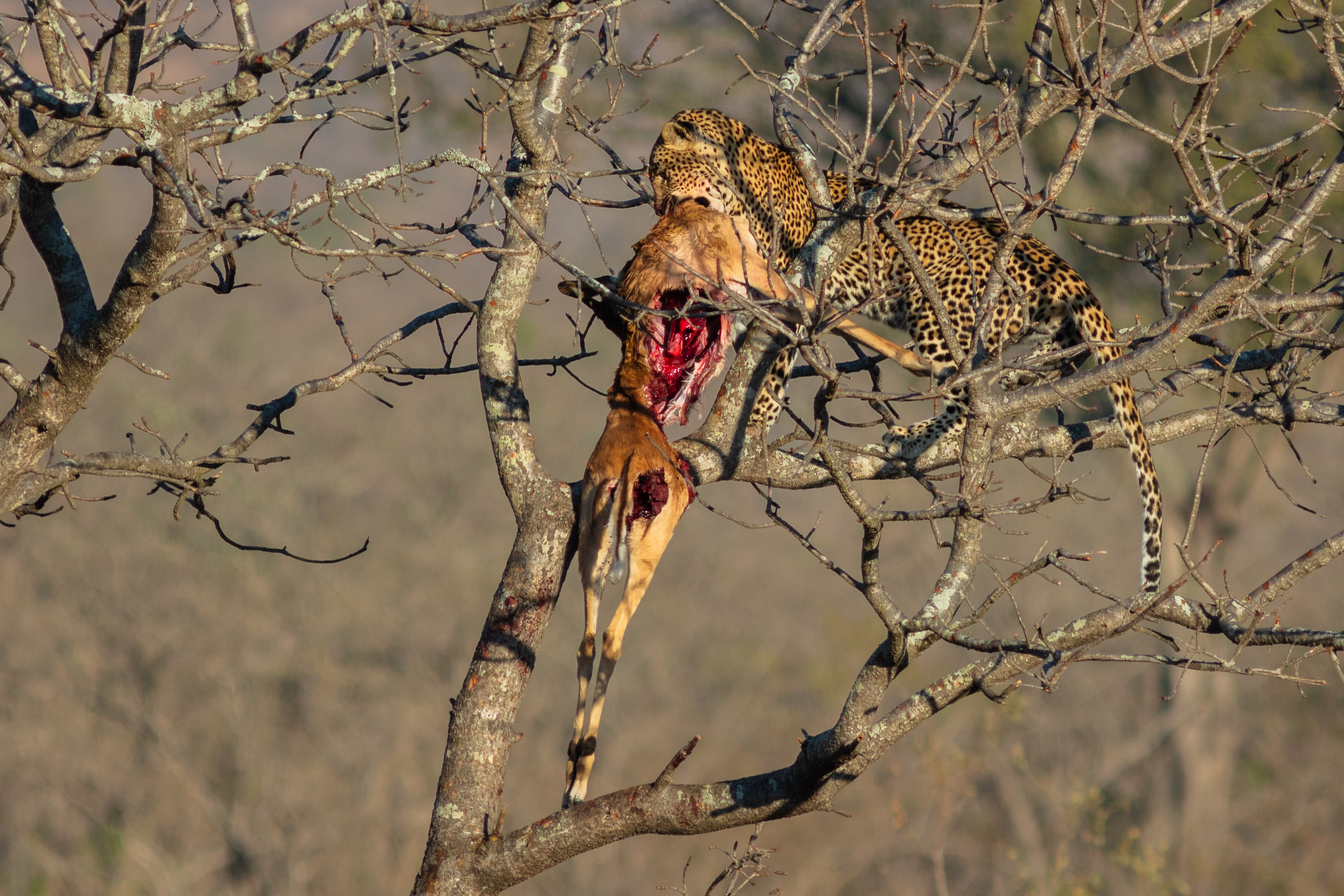 Exemplar of Leopard (Panthera pardus) devouring an antilope, Kruger National Park, South Africa.